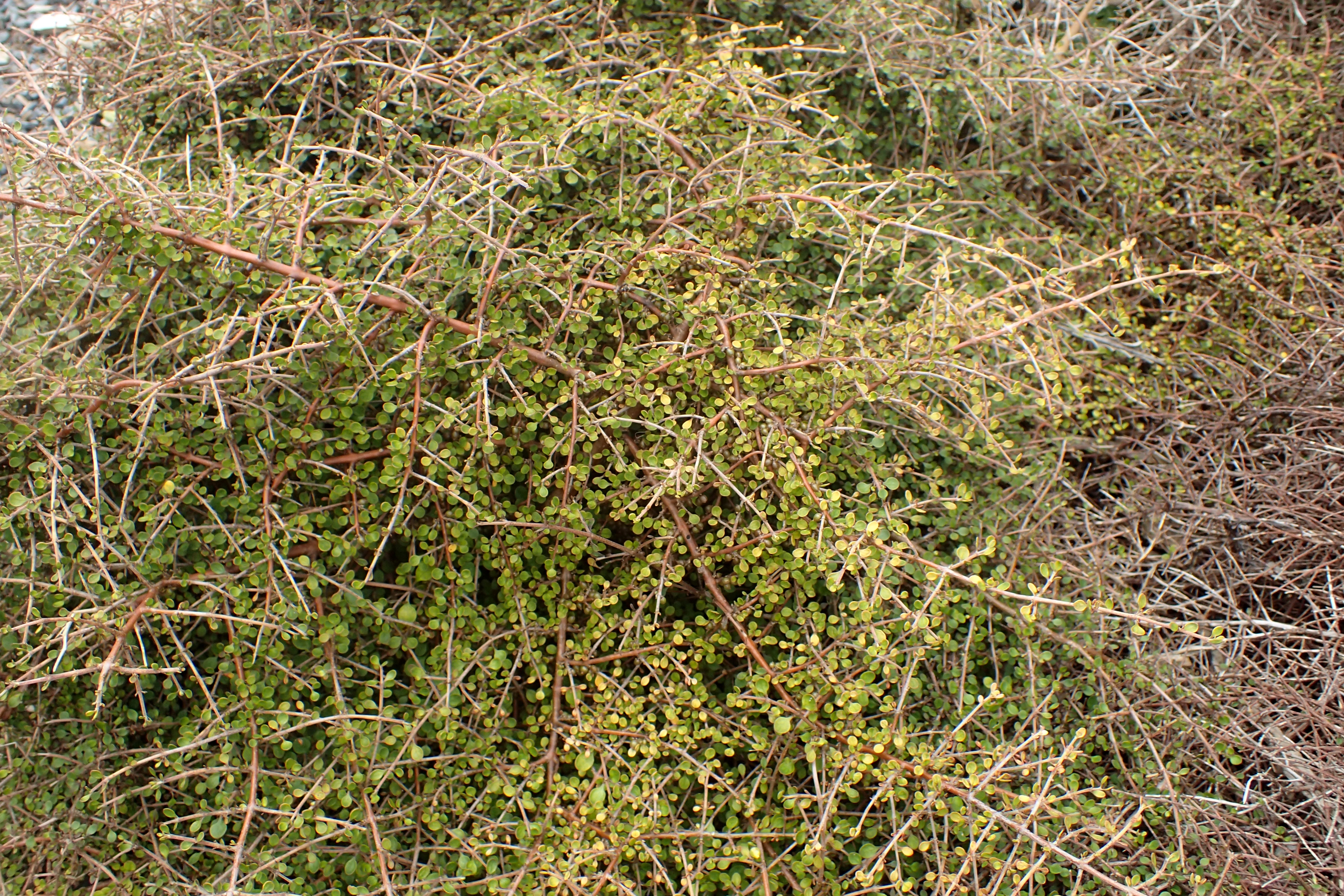 Coprosma × neglecta in Auckland Botanic Gardens